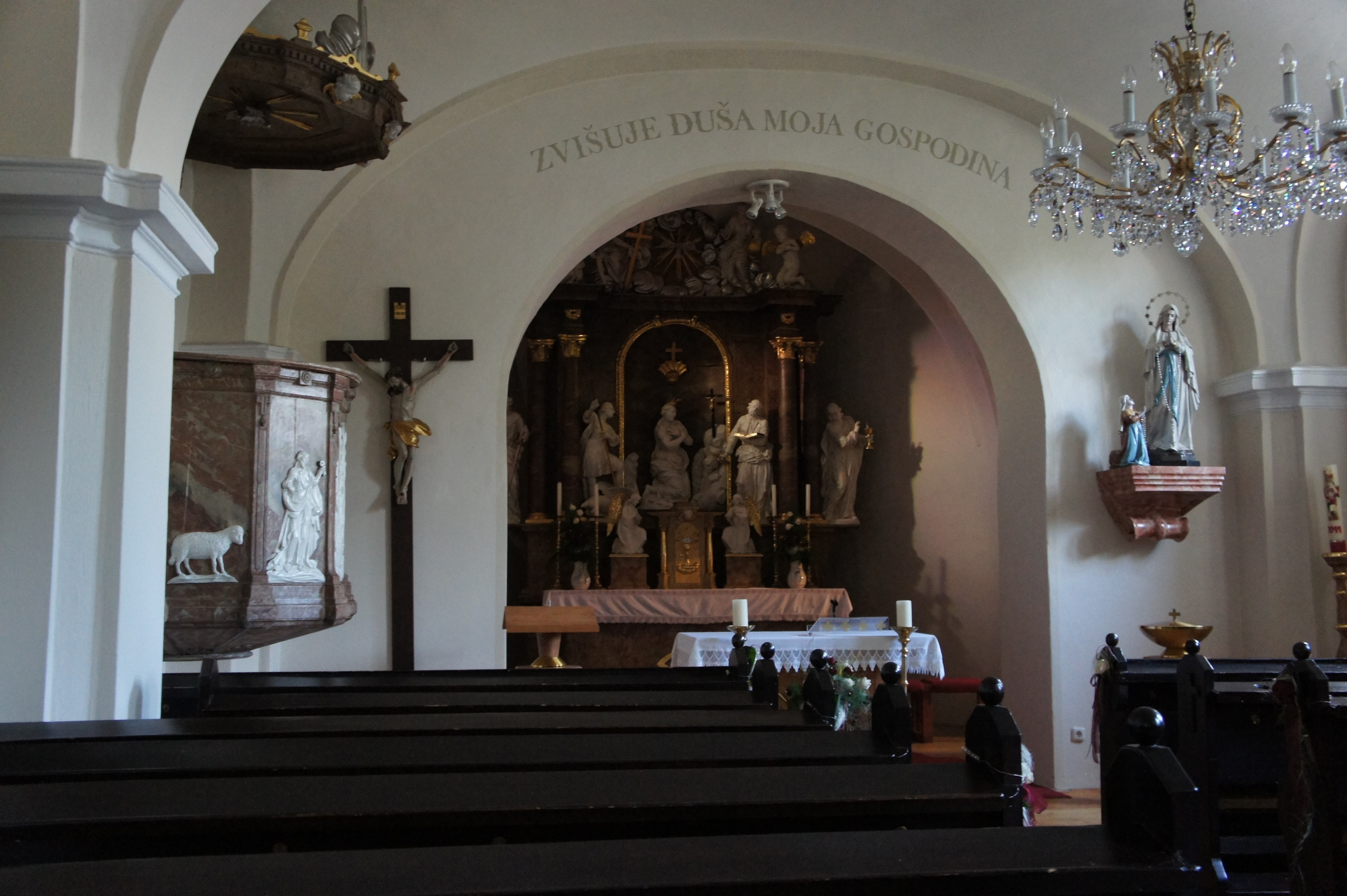 Interior view of the catholic church St. Magdalena, Weingraben, Austria